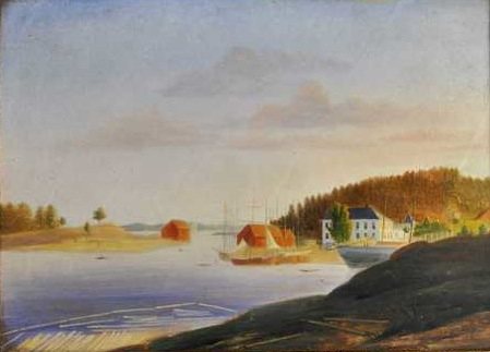 Kjellestad gård på Stathelle av B.S. Baar